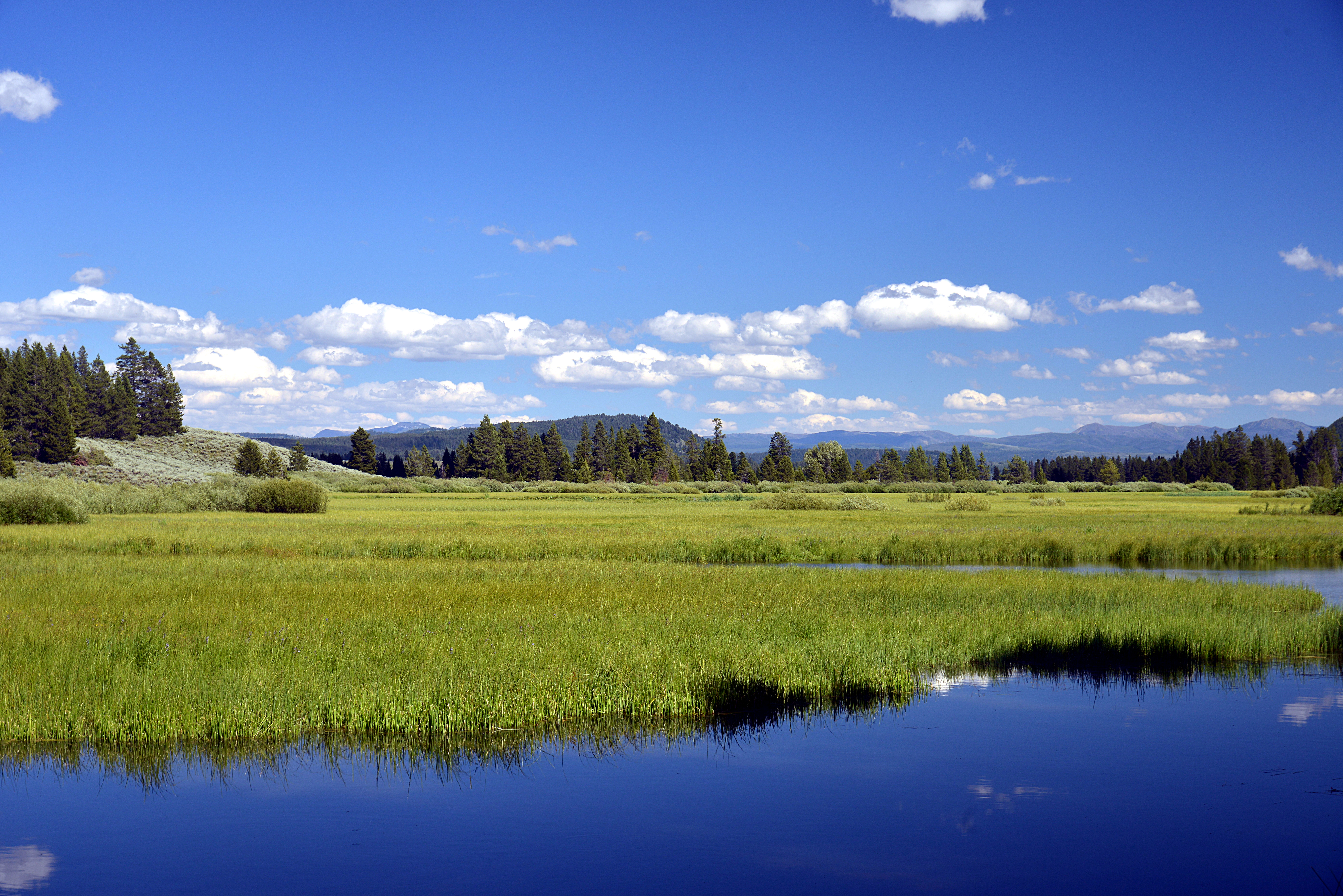 Swan Lake is along the Swan Lake and Heron Pond Trail, a 3.2 mile circuit hike starting at Colter Bay in Grand Teton National Park, WY